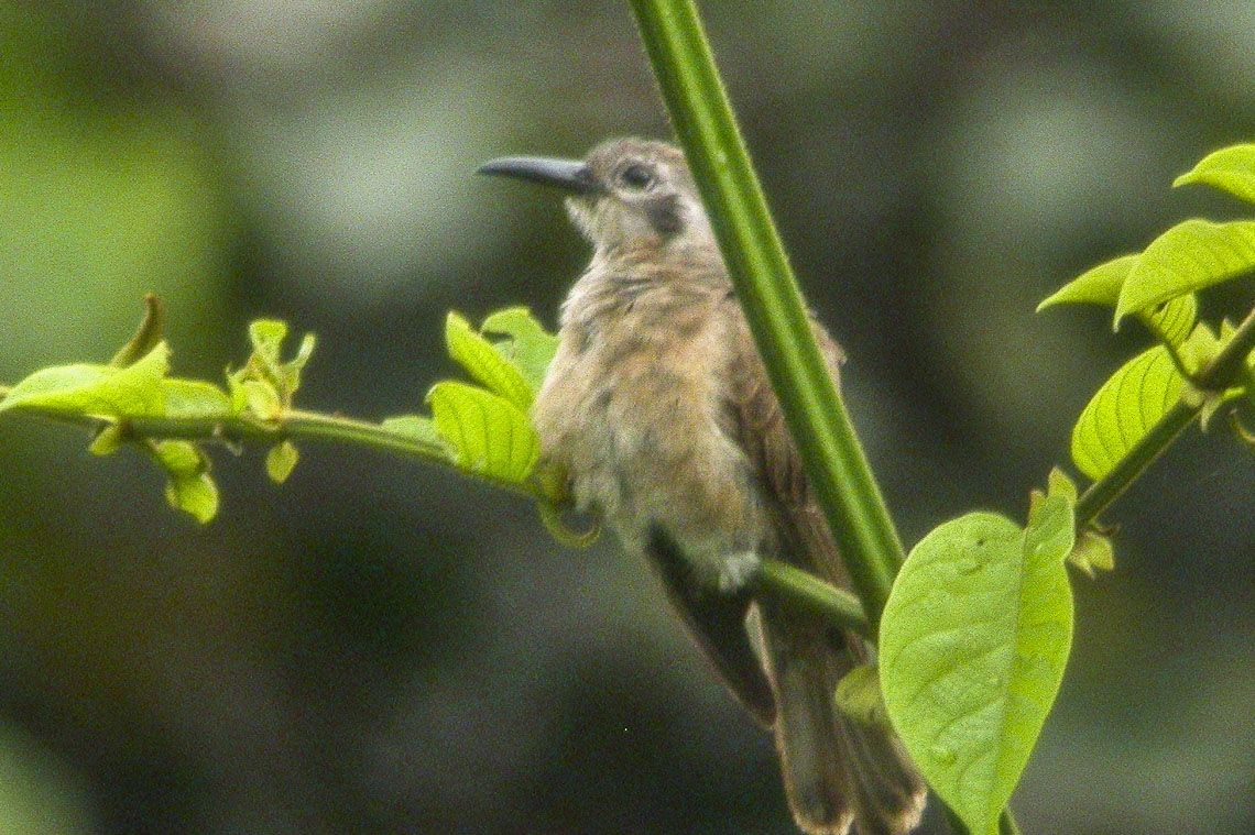 Long-billed Cuckoo (Chrysococcyx megarhynchus), cropped from original